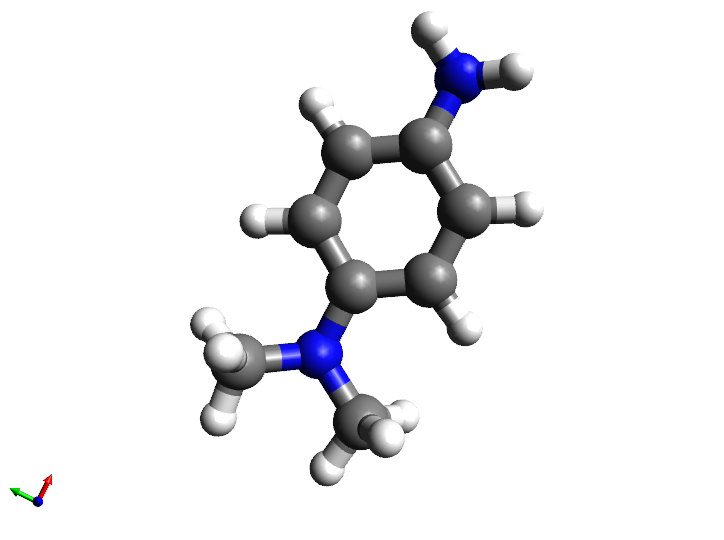 3-D image of a vulcanization accelerator